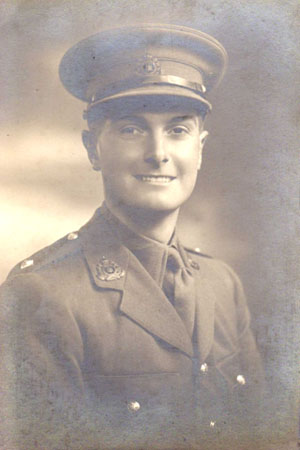 Second lieutenant Kenneth Mayhew, between 11 May 1940 and 11 November 1941